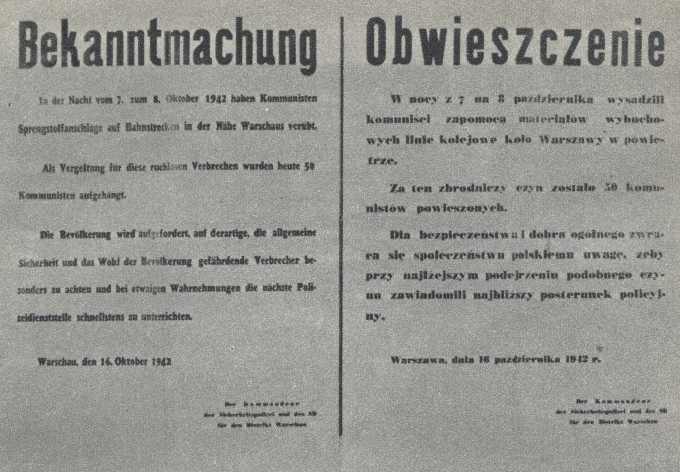 German announcement in occupied Poland (dated 16th October 1942), signed by Commandant of SD and Sicherheitspolizei in Warsaw – SS-Obersturmbannführer Ludwig Hahn, informing about the hanging of 50 "communists" as a reprisal for blowing up railway lines near Warsaw by the Polish resistance movement.